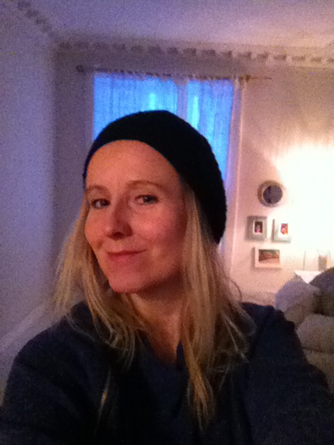 Singer and artist